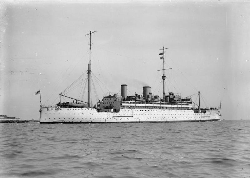 Photograph of British submarine depot ship HMS Medway.